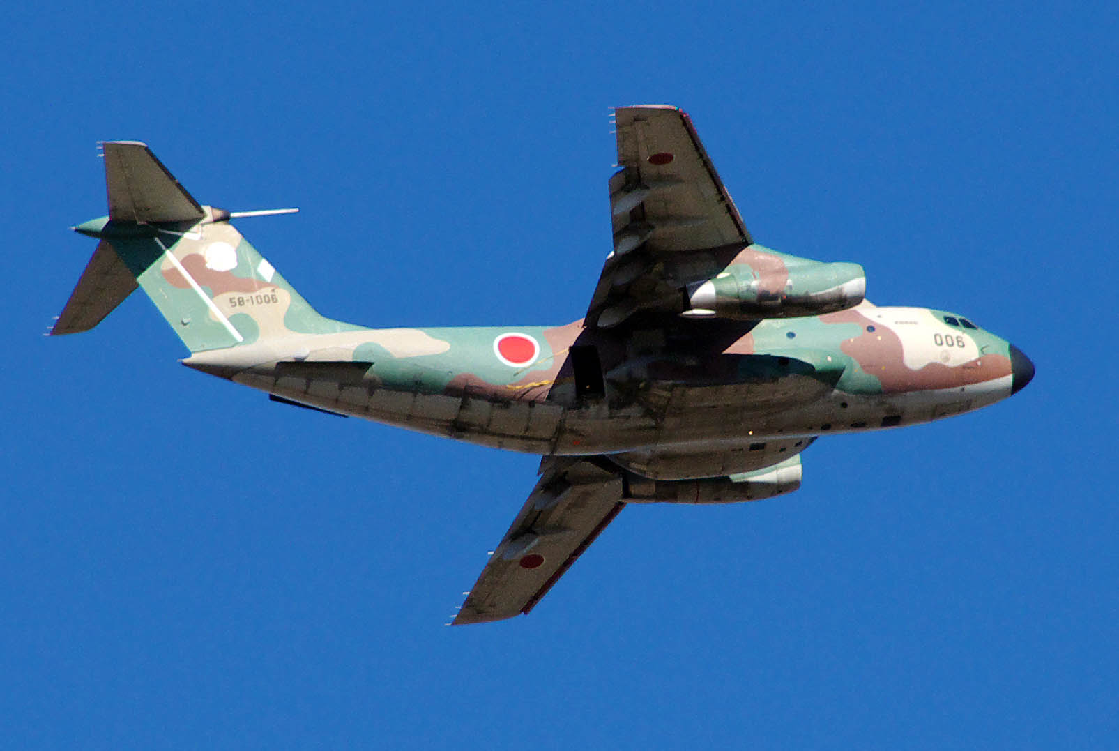 In Narashino,Japan,JGSDF 1st Airborne Brigade 2009 first drop manuver.11-Jan-2009.JASDF C-1.Taken by Los688.PD-self